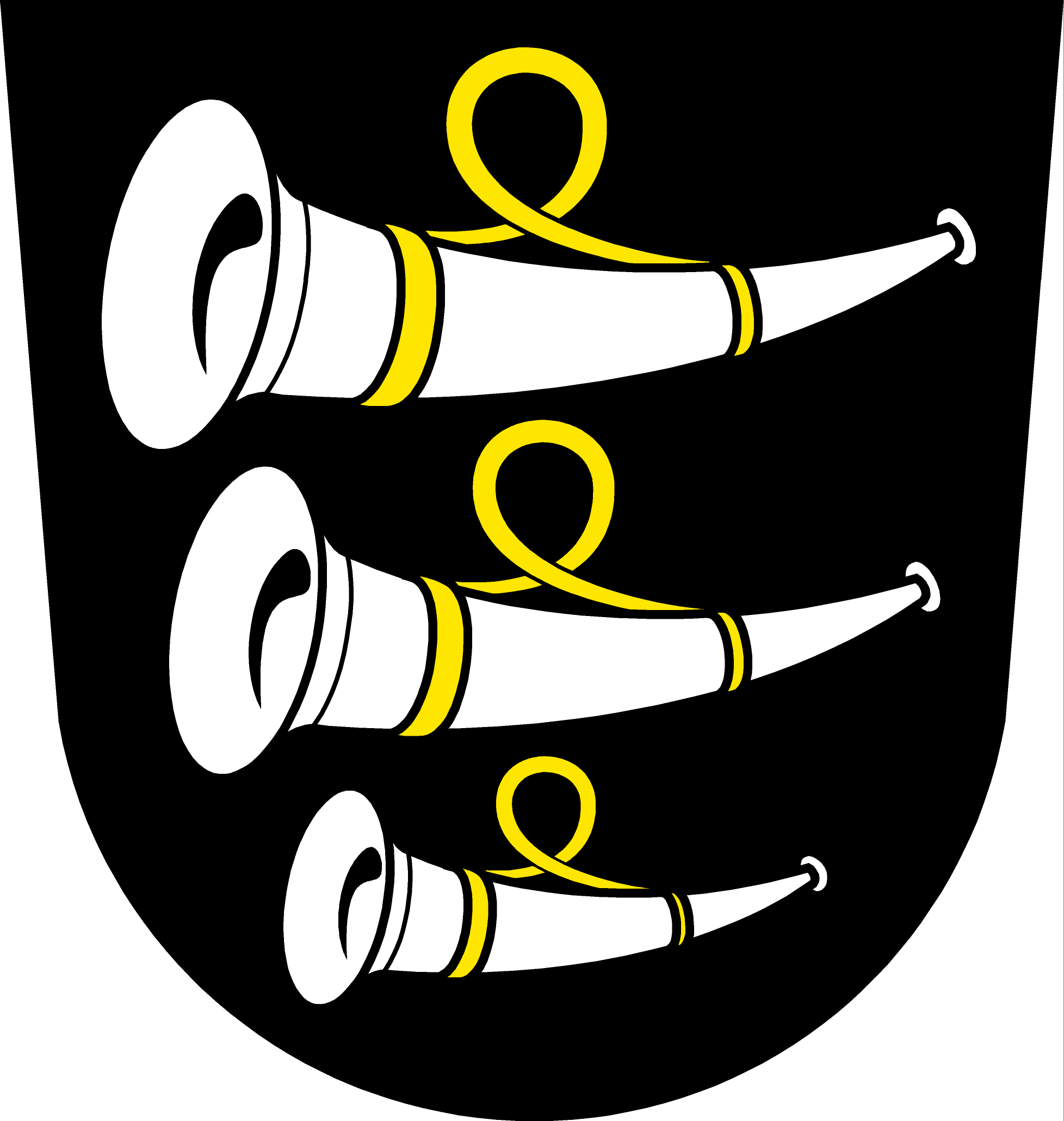 Coat of arms of the county of Marstetten of the Neuffen